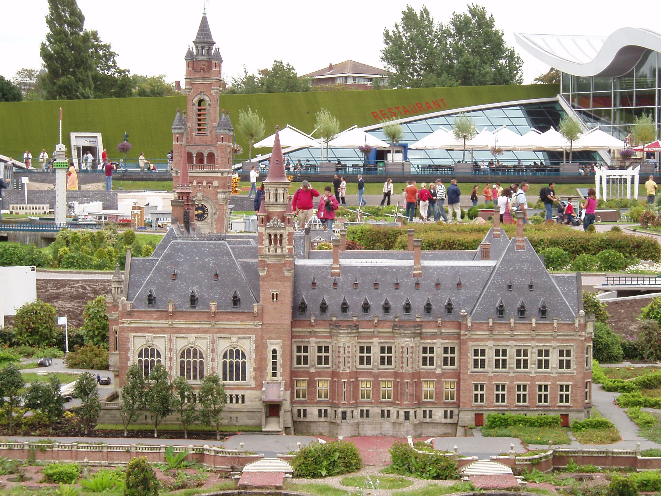 Madurodam in the Hague in the Netherlands; Peace Palace / Vredespaleis in Den Haag